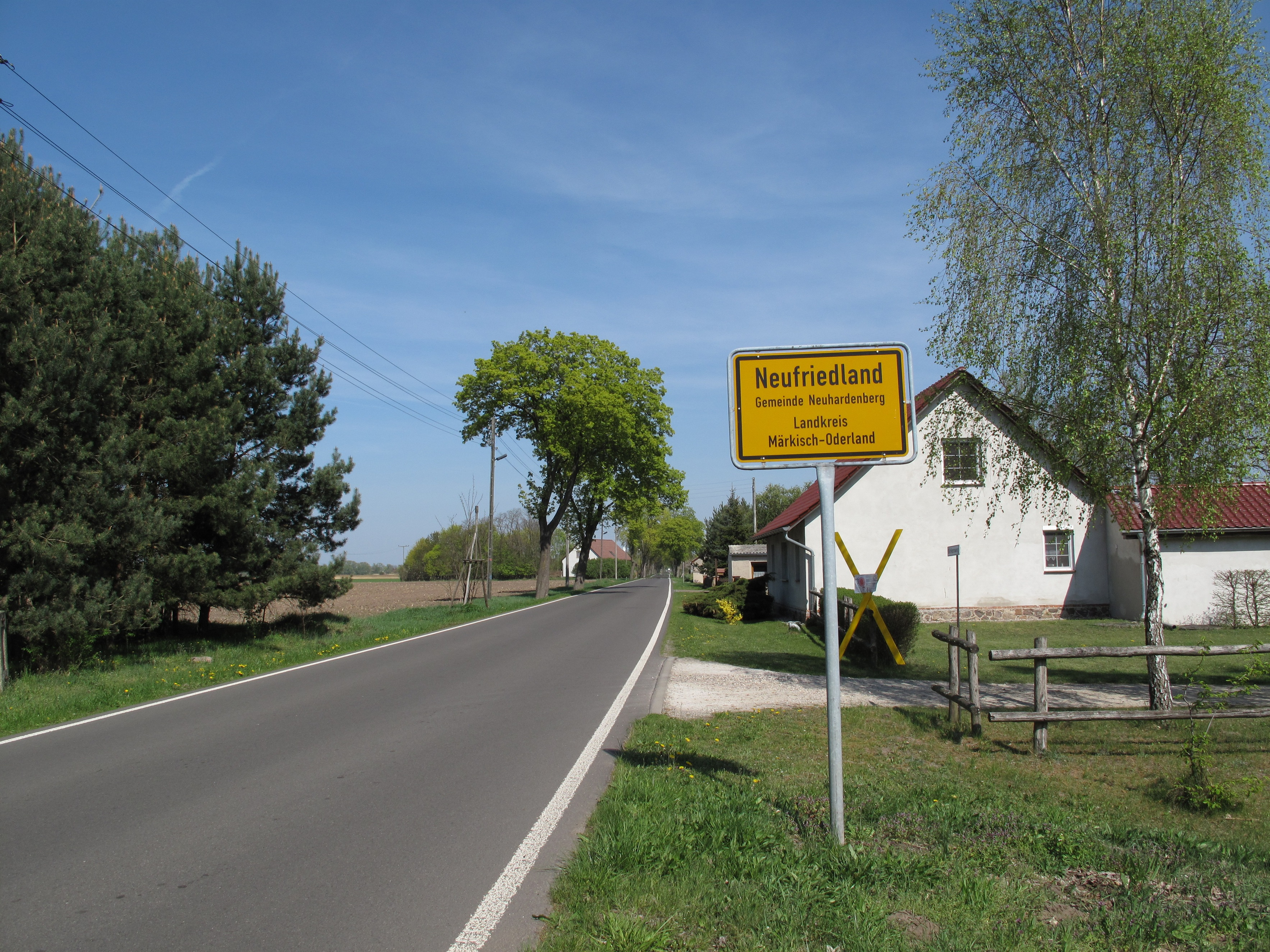 Western entrance to Neufriedland on the Landesstraße 34. Neufriedland is as part of Altfriedland, a village of the municipality Neuhardenberg in the District Märkisch-Oderland, Brandenburg, Germany.